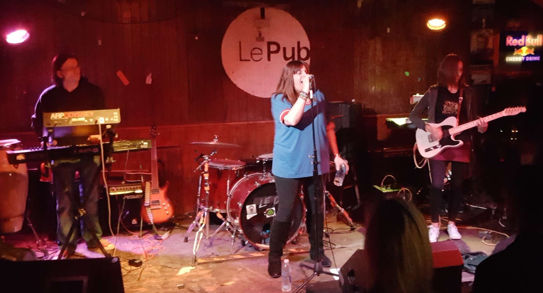 "Smash Hits" lineup of (L-R Ricardo, Helen, Sheena), at Le Pub, Newport, 8 Oct 2016